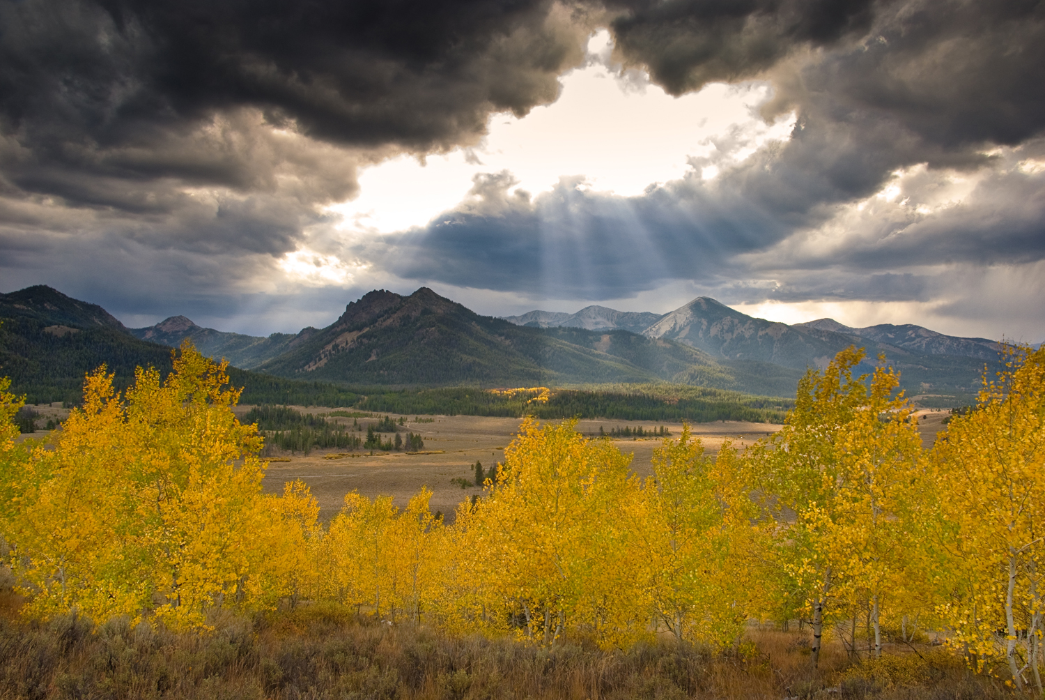 Sometimes the heavens open up and shine down upon us. While the Aspens were sparse, the crepuscular rays electrified a small grove on them in the distance. Located in the Sawtooth Valley of Sawtooth National Recreation Area, Idaho. Quaking aspen (Populus tremuloides) changing color are in the foreground.